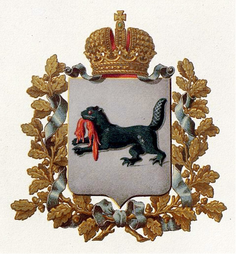 Official Russian Empire coat of arms Irkutsk Governorate.